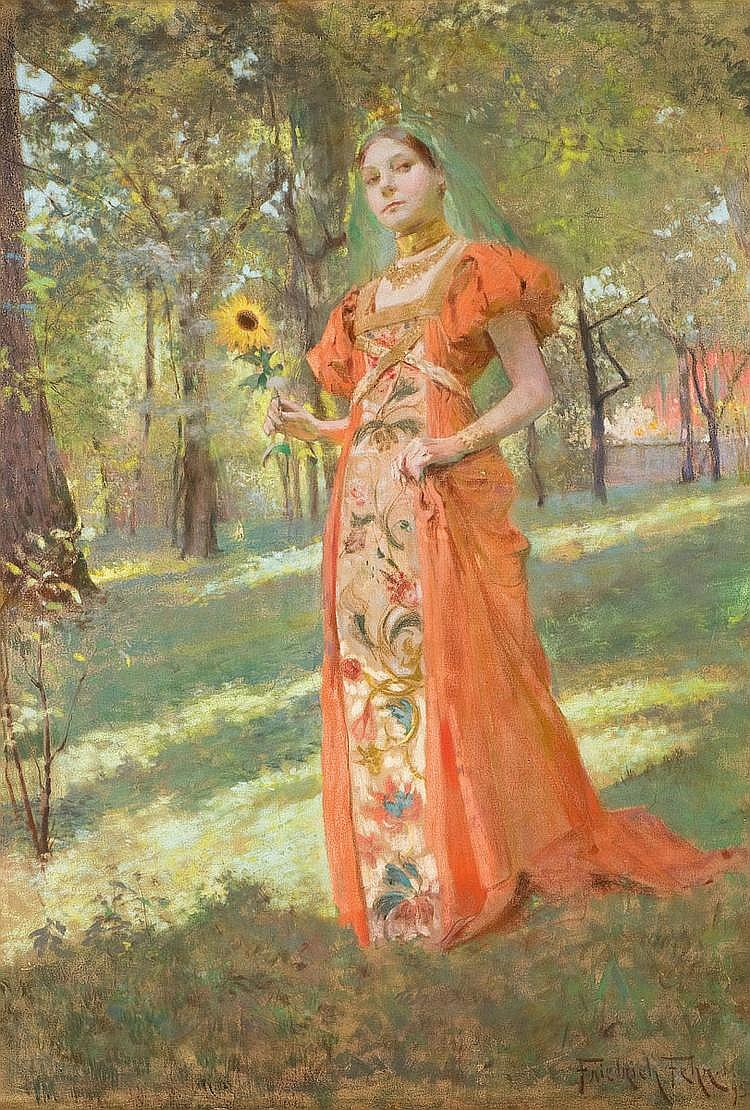 Girl with sunflower